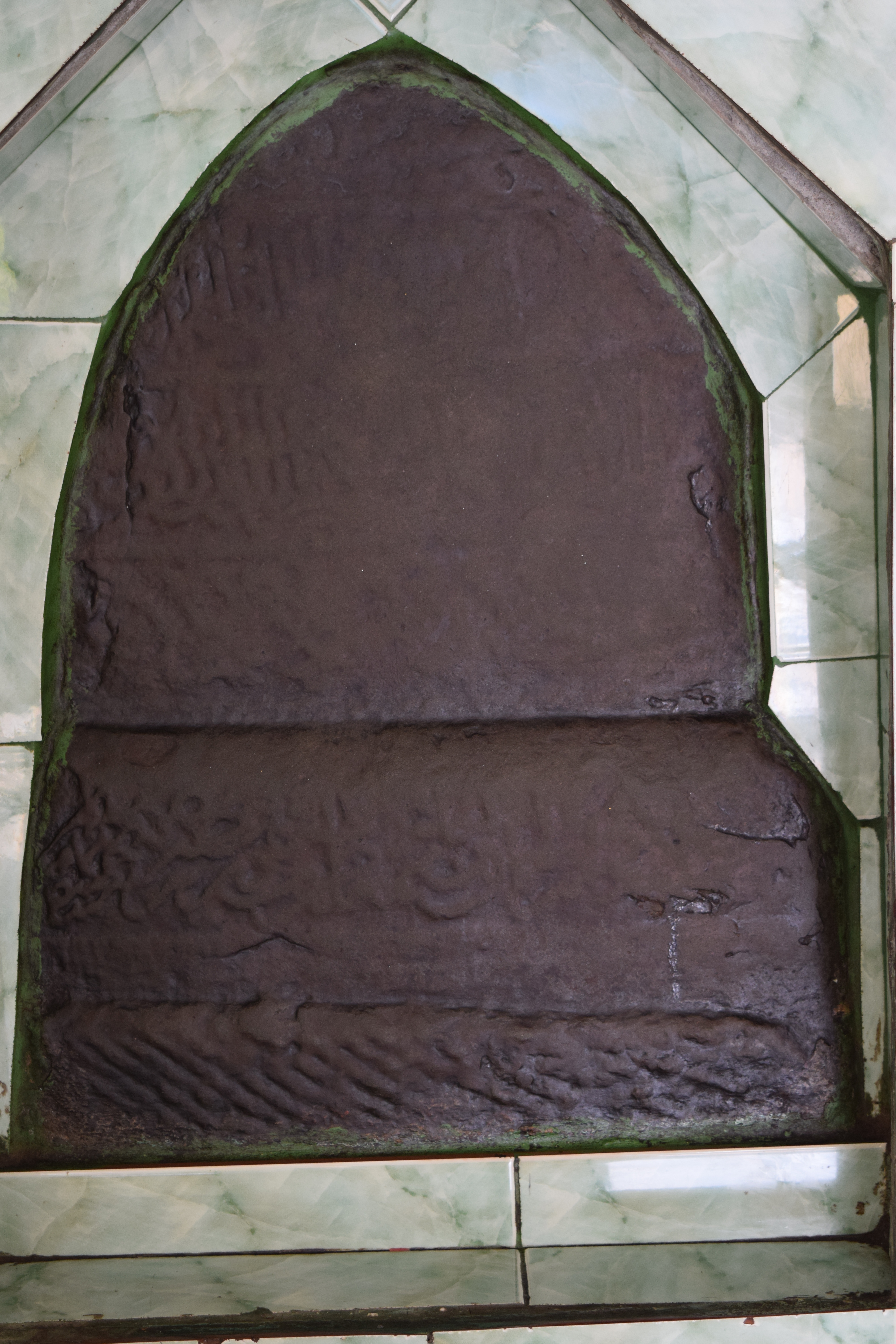 Badar Awlia Shrine Stone Tablet - Chittagong